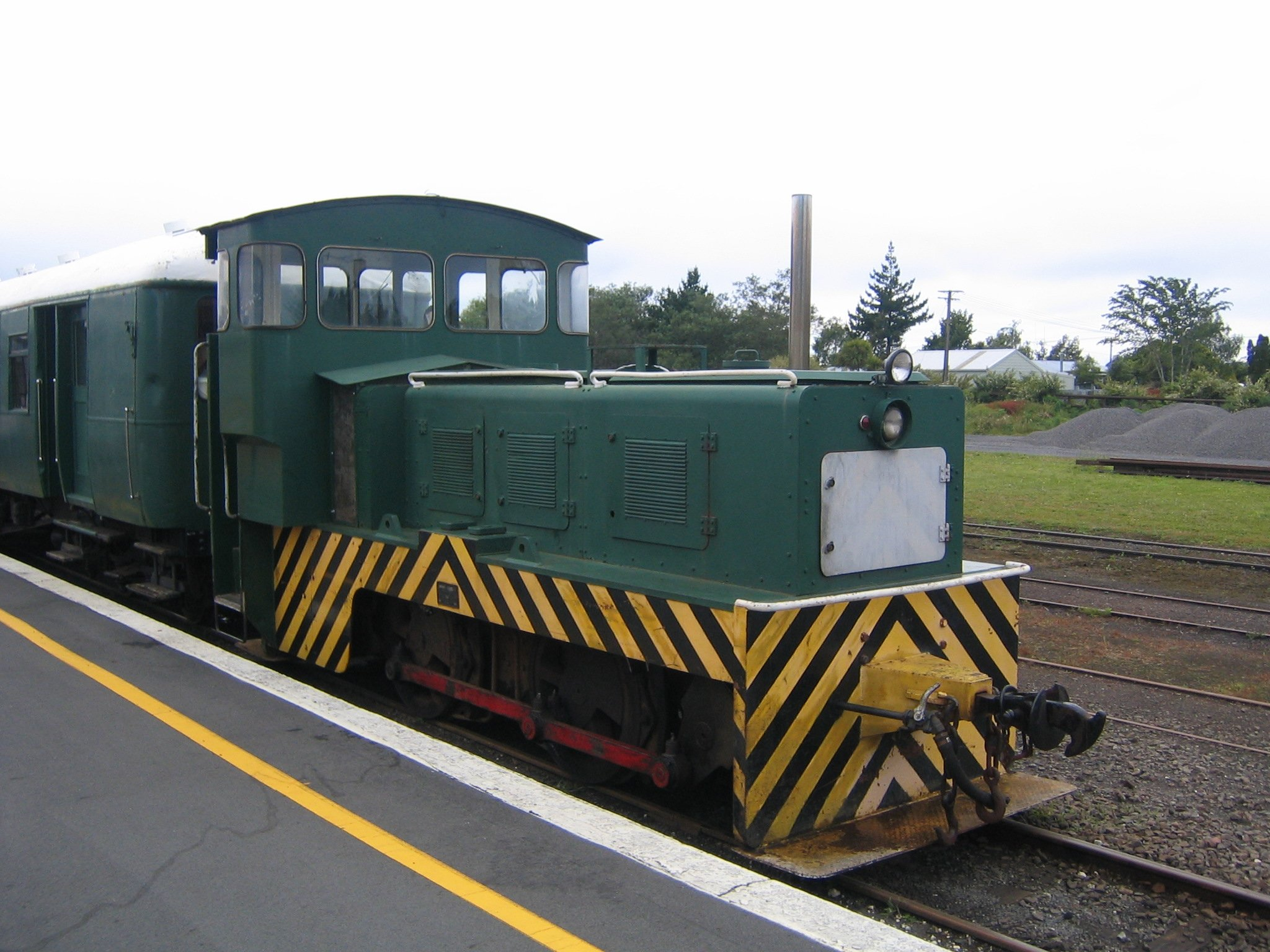 Puff, puff, puff : Steam train rides depart daily form the Waihi Railway station at the end of Wrigley Street and take you to the Waikino Railway Station. Take an excursion into the past, and then walk across to look at the old stamping battery and Narrow gauge electric railway...